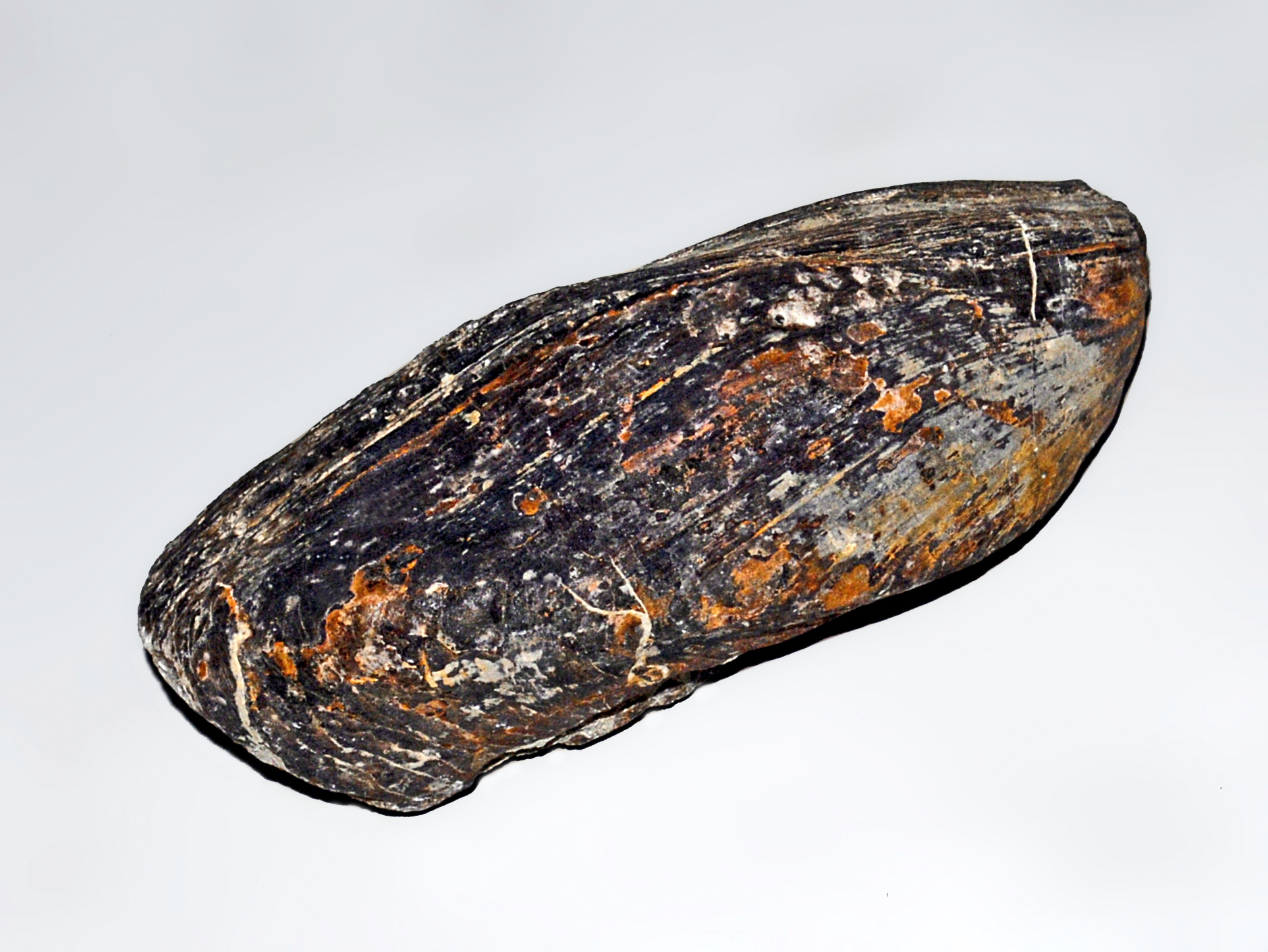 Gervillia inflata from Rhaetian of Italy, on display at the Museo Civico di Storia Naturale of Lecco